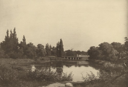 Stadsgraven next to Rosenkrands Bastion with Dronningens Mølle where Østre Anlæg is located today in Copenhagen, Denmark